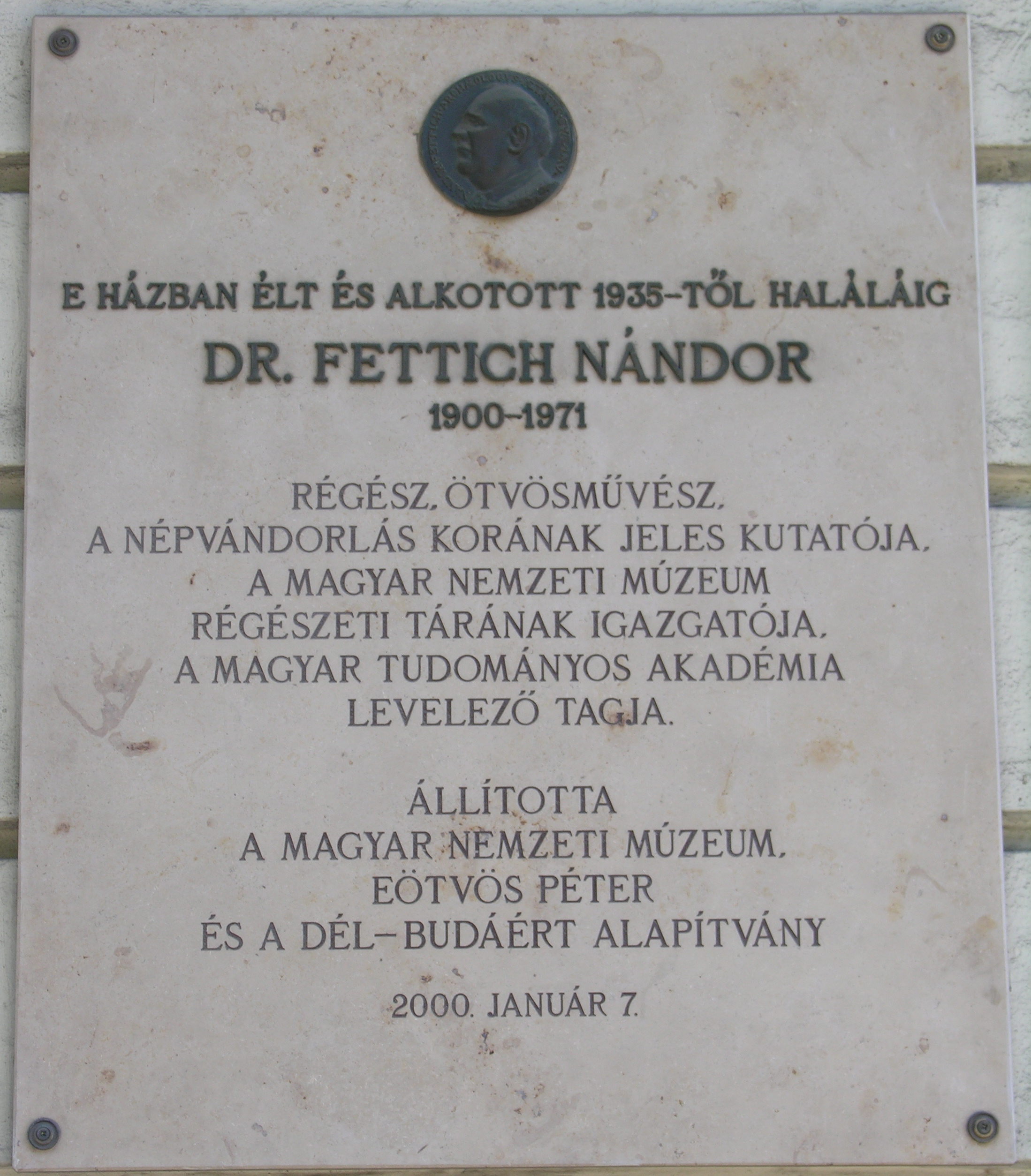 Commemorative plaque of Nándor Fettich in Budapest District XI, Bartók Béla Street No 10-12